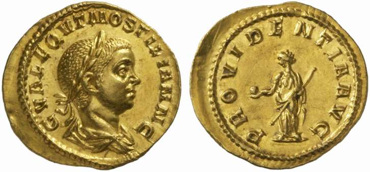 Hostilian as Caesar, 251, Aureus circa 251, 3.57 g. G VALE QVT M OSTILIAN N C Laureate and draped bust right. Rev. PROVIDENTIA AVG Providentia standing left, holding globe in right hand and sceptre in left. RIC -, cf. p. 144, footnote to 181 (this obverse die) and pl. 13, 11 (aureus of Trebonianus Gallus, this reverse die). C -. Leu 45, 1988, 368 = NAC 5, 1992, 592 = Sotheby's 5.7.1995, 156 sales (these dies). Vagi 2214. Calicó 3320.